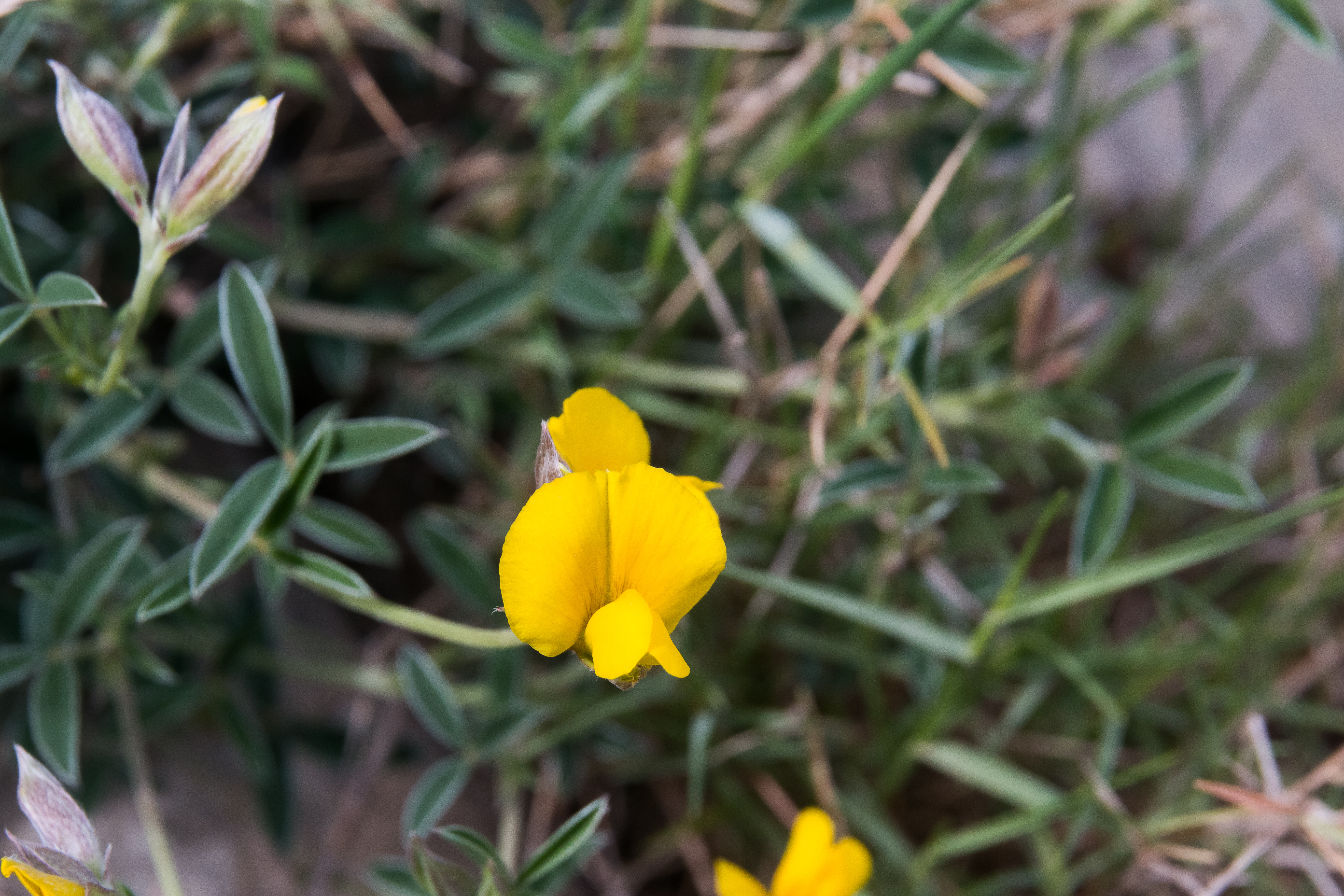 Argyrolobium zanonii